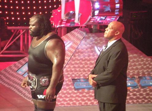 ECW Champion Mark Henry & Hall of Famer Tony Atlas